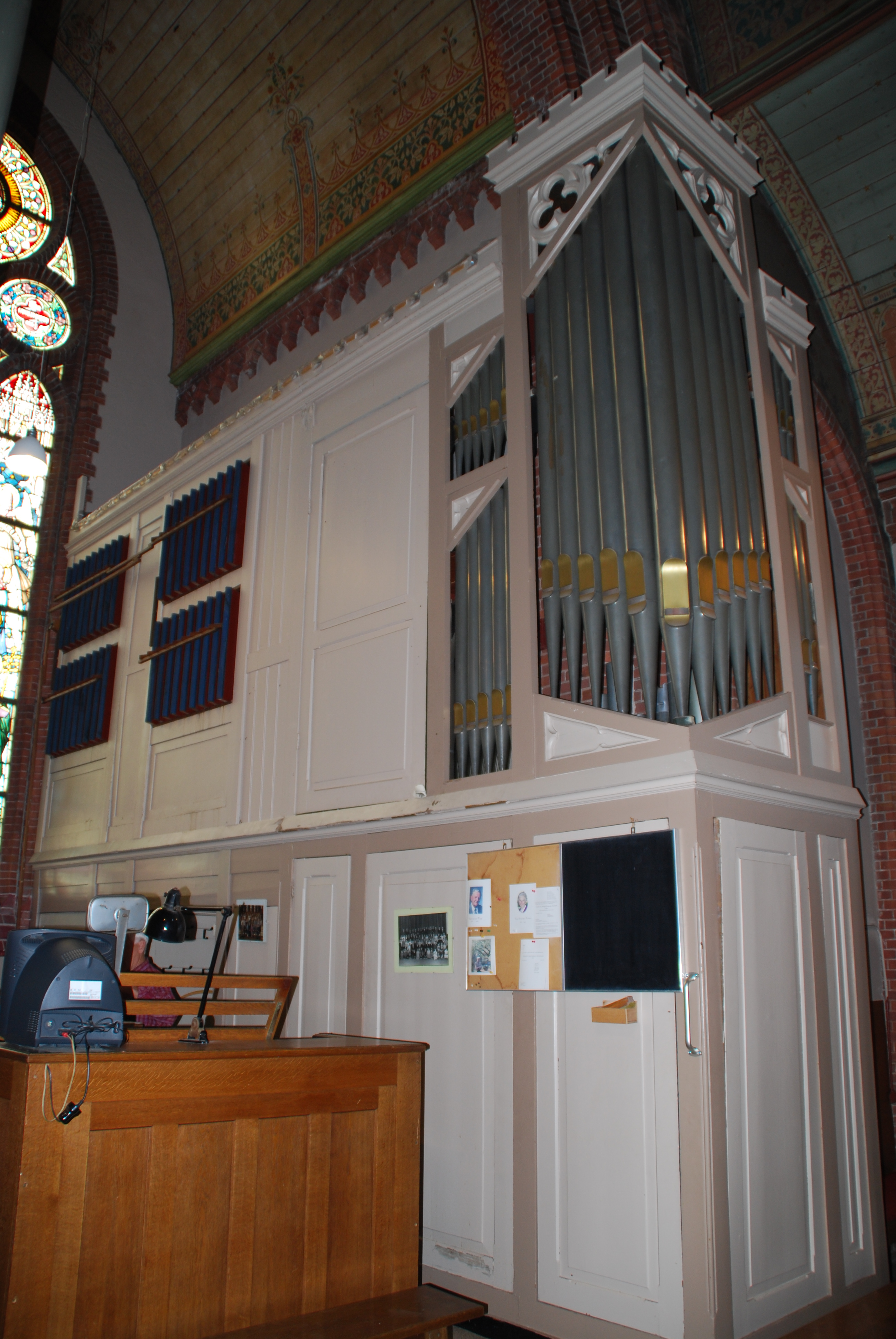 Jan de Doperkerk in Wateringen, The Netherlands. Built by Albert Margry, completed 1901.